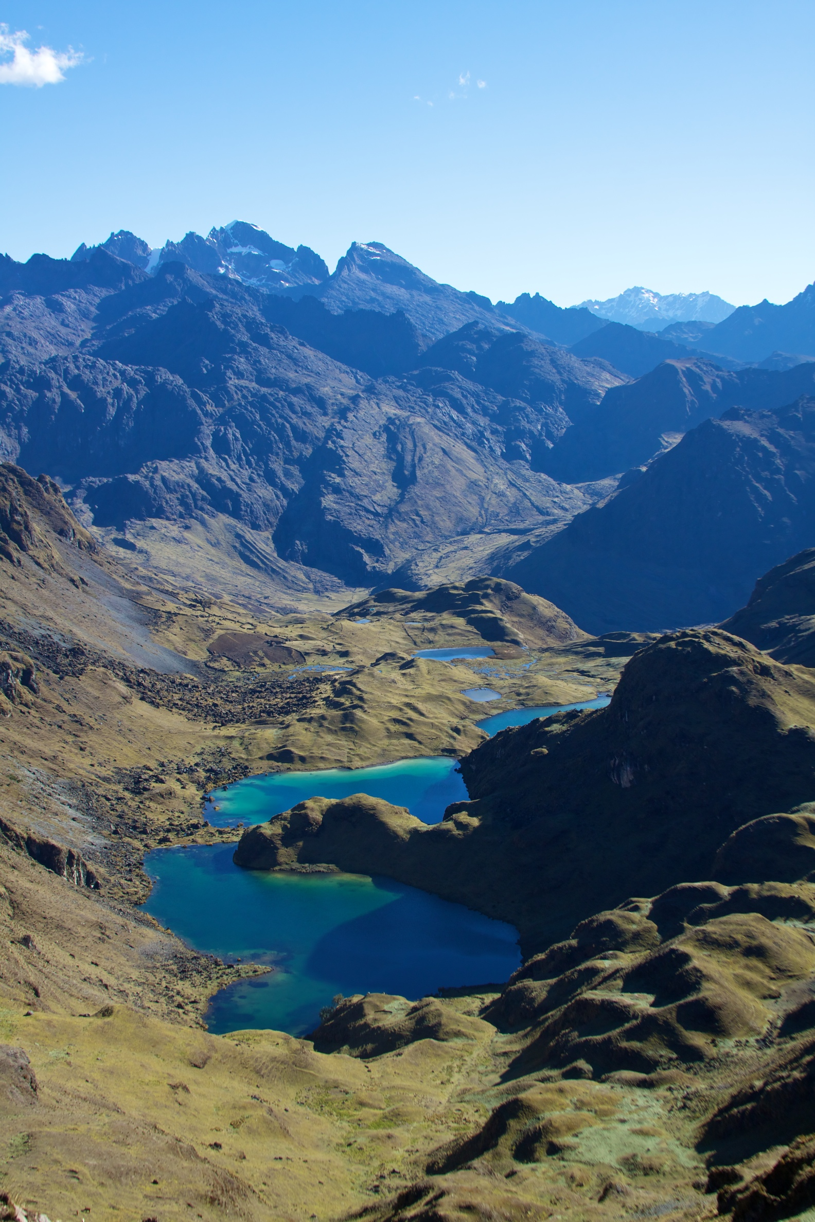 Sharp mountains and azul lakes stretch out below our 2nd pass, some of the most spectacular scenery I've had the pleasure of hiking through. (Add. note: View from Willka Q'asa pass)